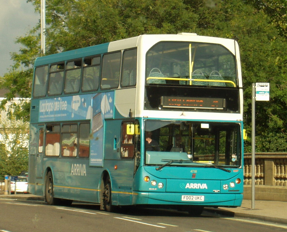 East Lancs Myllennium Lowlander bodywork on VDL DB250 chassis, pictured in Derby.